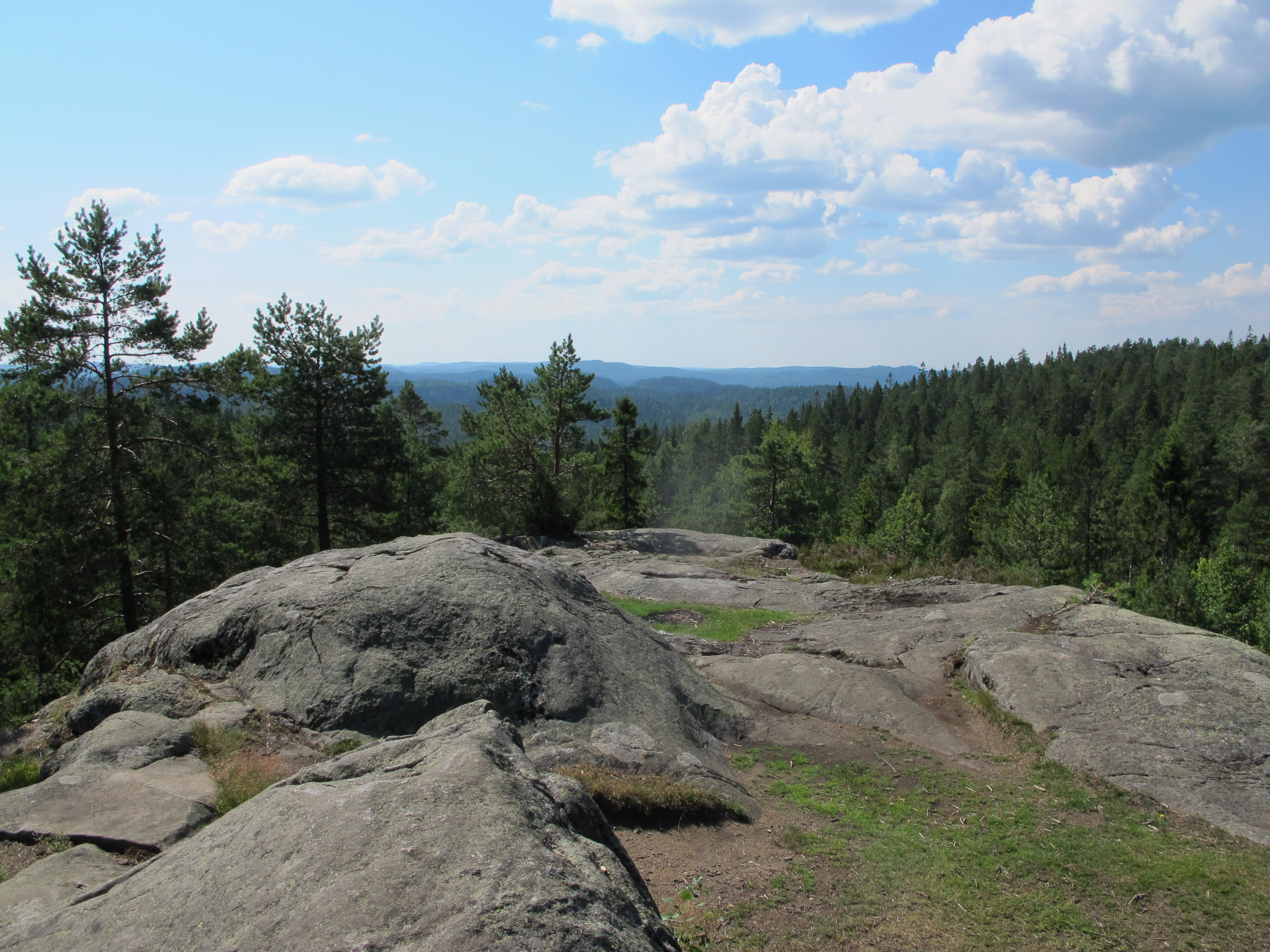 Ramstadslottet looking south